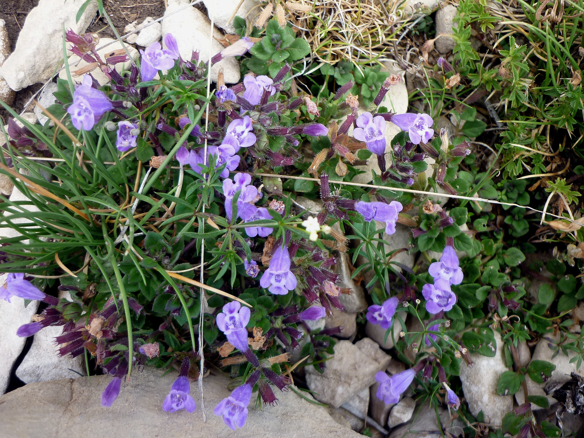 Satureja alpina. In la Bòfia, Guixers (Solsonès - Catalunya). To 1.960 m. altitude